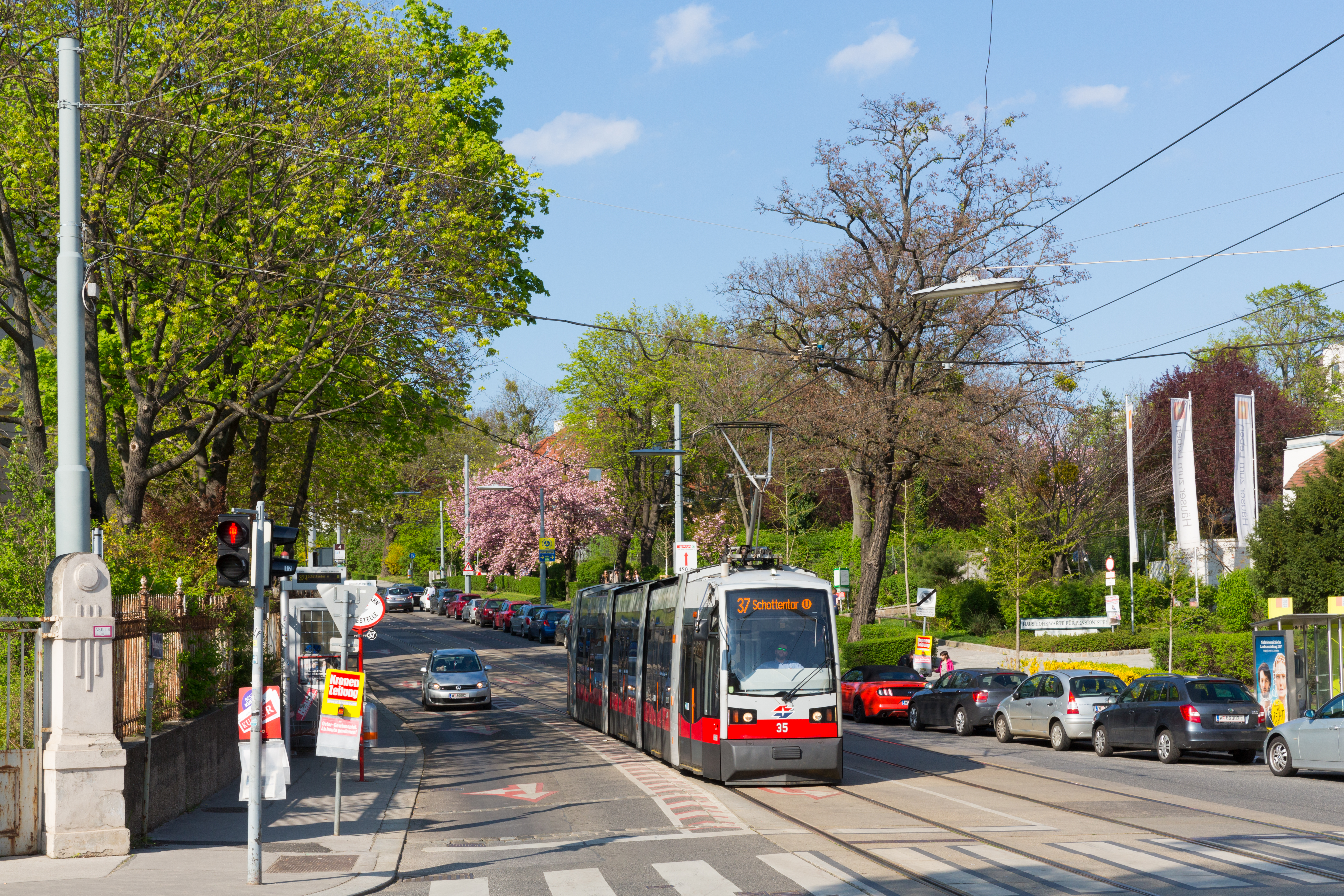 A tramway on the line 37 at the station Barawitzkagasse.